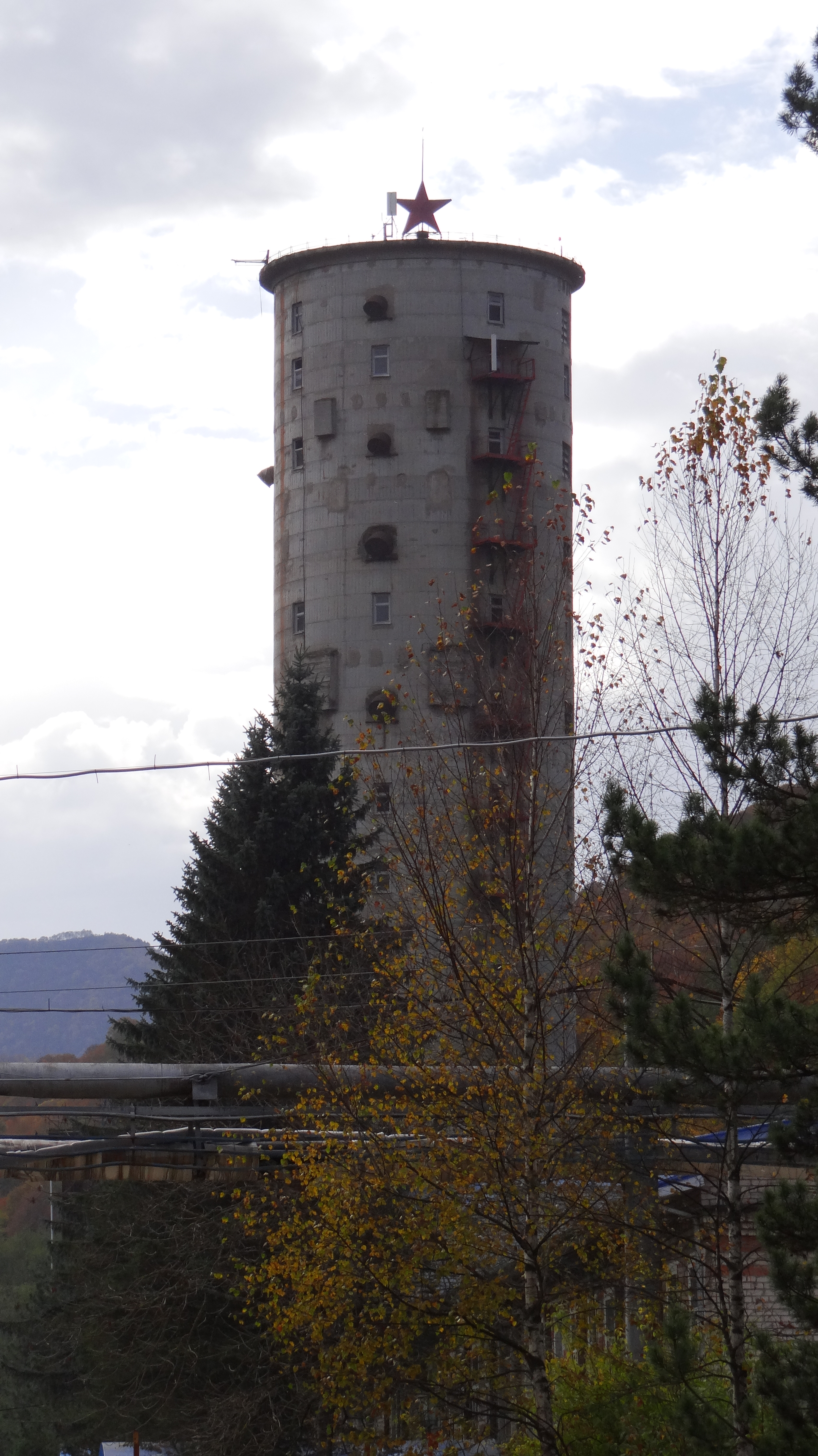 Urupsky District, Karachay-Cherkessia, Russia